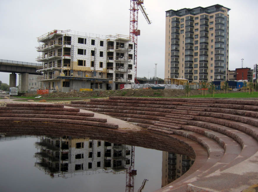 Penttilä river side Joensuu, "amfi theatre"